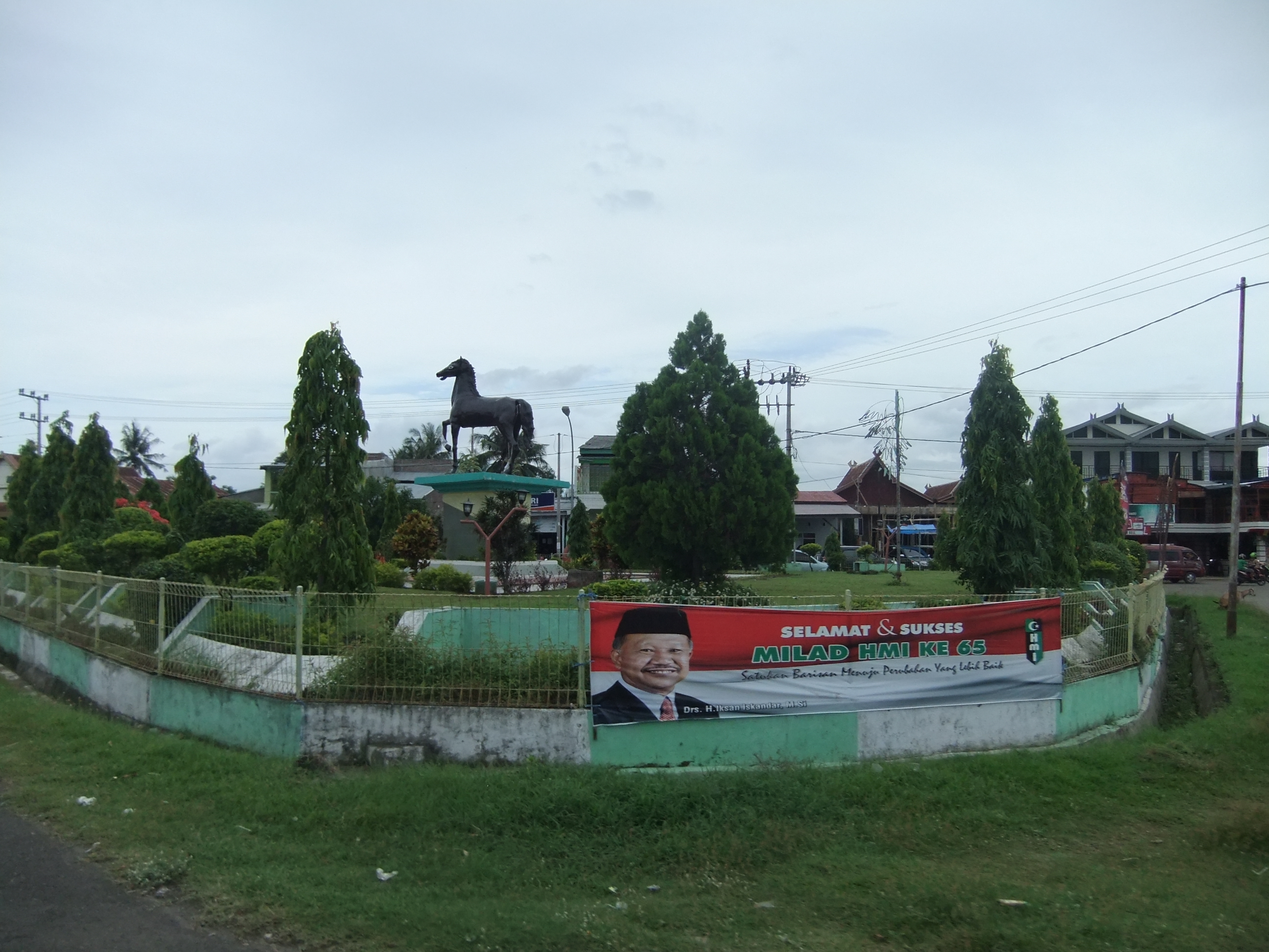 Horse Monument, Jeneponto Regency South Sulawesi